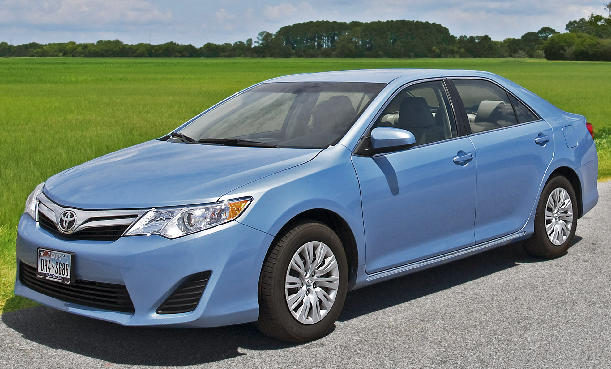 Image by Ron Cogswell on July 18, 2012, using a Nikon D80 and minor Photoshop effects. DSC_0181